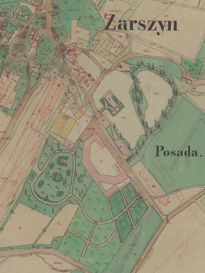 Manor house in Posada Zarszyńska on a map from 1851